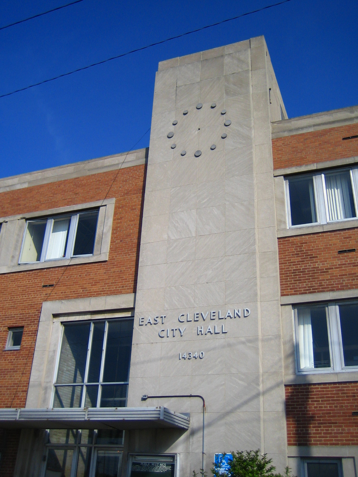 East Cleveland, OH city hall.